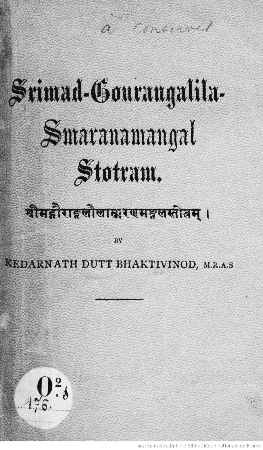 Srimad-Gaurangalila-smaranamangal by Bhaktivinoda Thakur published and sent to the West in 1896